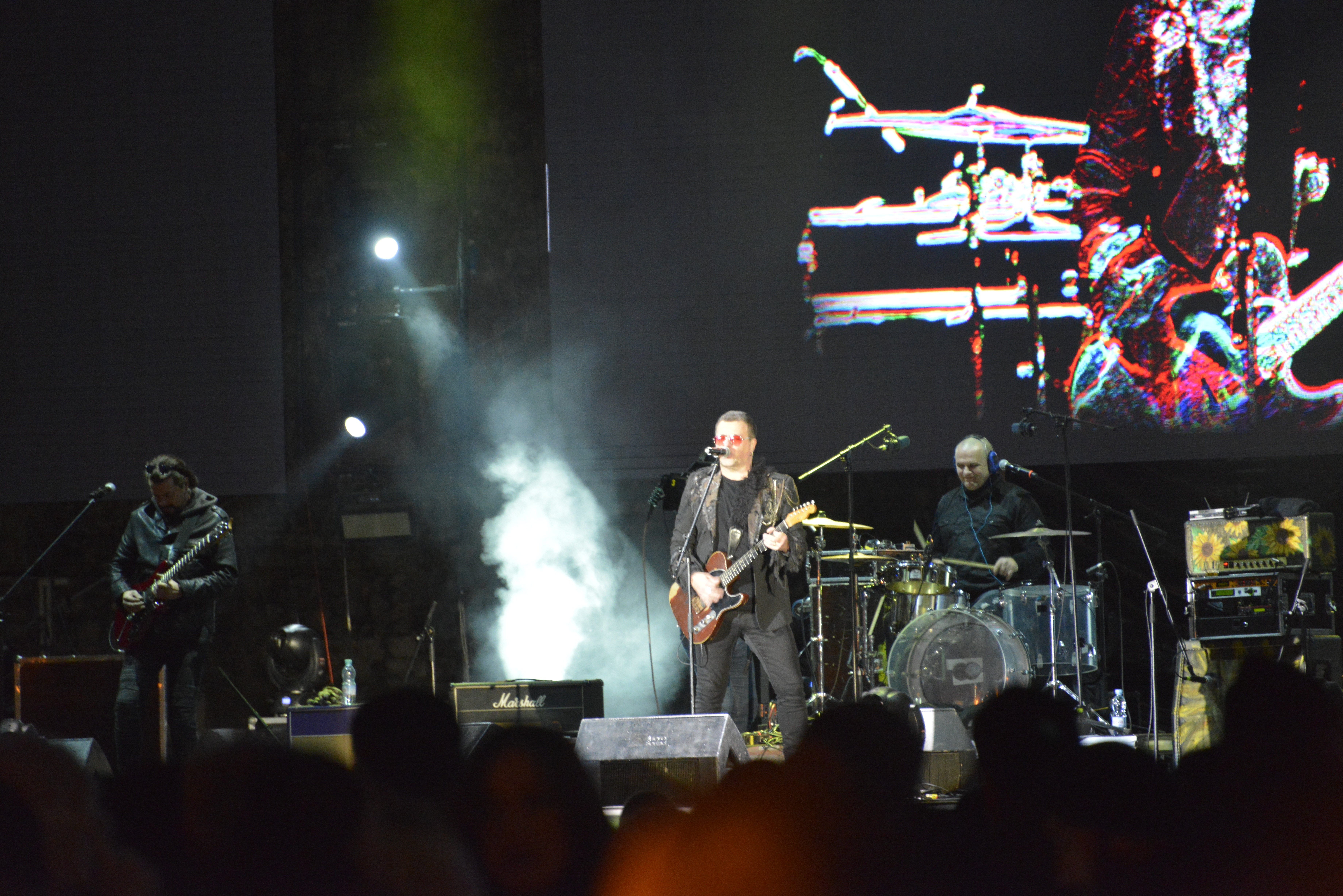 Van Gogh rock concert in Budva (Montenegro), January 1, 2019